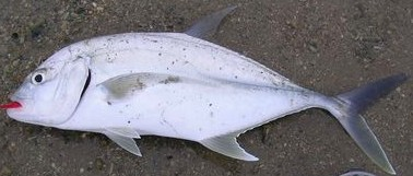 Caranx papuensis, Darwin